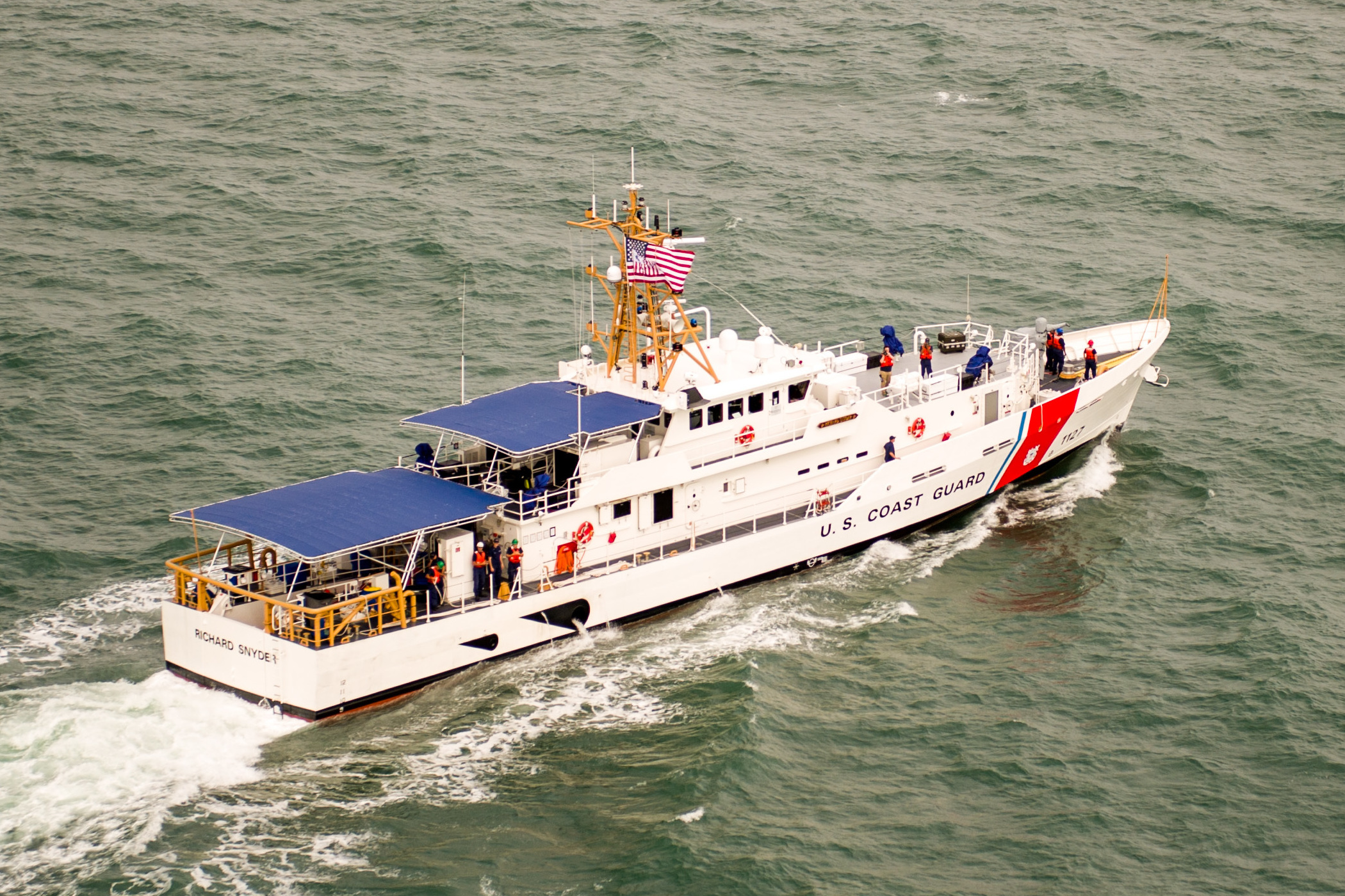 Coast Guard Cutter Richard Snyder approaches Coast Guard Sector Field Office Fort Macon in Atlantic Beach, North Carolina, March 20, 2018. The Richard Snyder is the newest cutter in the Coast Guard’s fleet and is the first of its class to be homeported in Atlantic Beach. (U.S. Coast Guard photo by Auxiliarist Trey Clifton/Released)